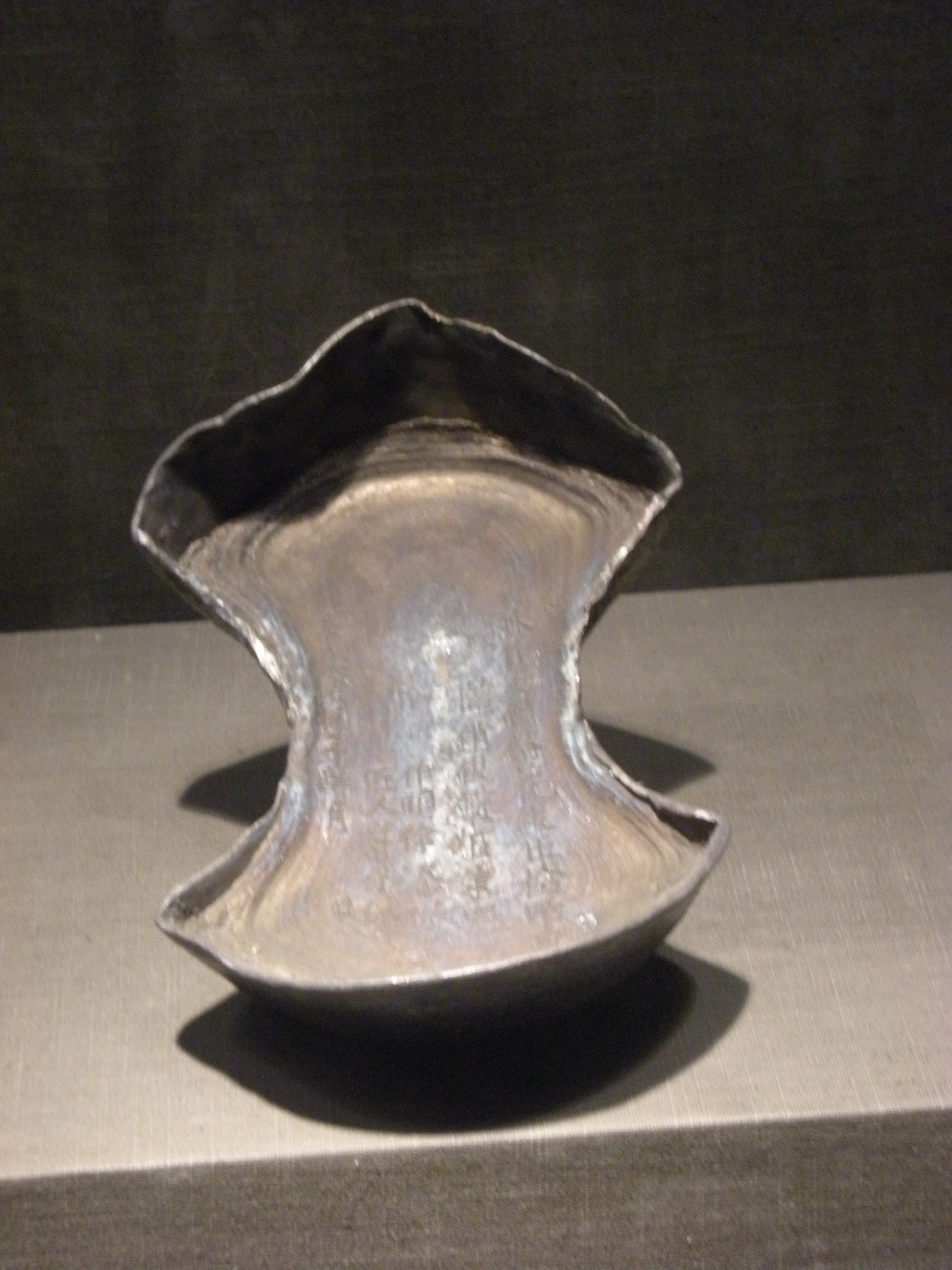 Big silver bullion in the tomb of Liang Zhuang Wang （Prince Liang zhuang） of Ming Dynasty in Hubei Provincial Museum。It was made by the silver Zheng He's voyages brought back。 Period：Yong Le Emperor period Ming Dynasty(1403～1424)